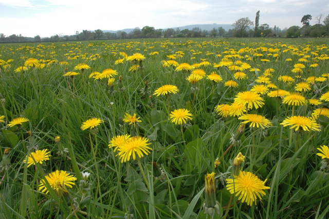 Field of dandelions A field of dandelions near Tibberton. The distinctive May Hill can be seen in the background.